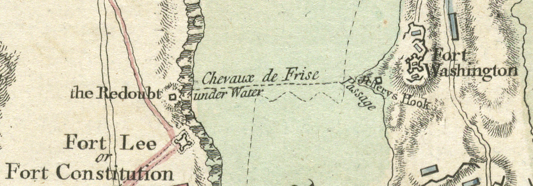 Full map title: A plan of the operations of the King's army under the command of General Sr. William Howe, K.B. in New York and east New Jersey against the American forces commanded by General Washington, from the 12th. of October, to the 28th. of November 1776, wherein is particularly distinguished the engagement on the White Plains, the 28th. of October.